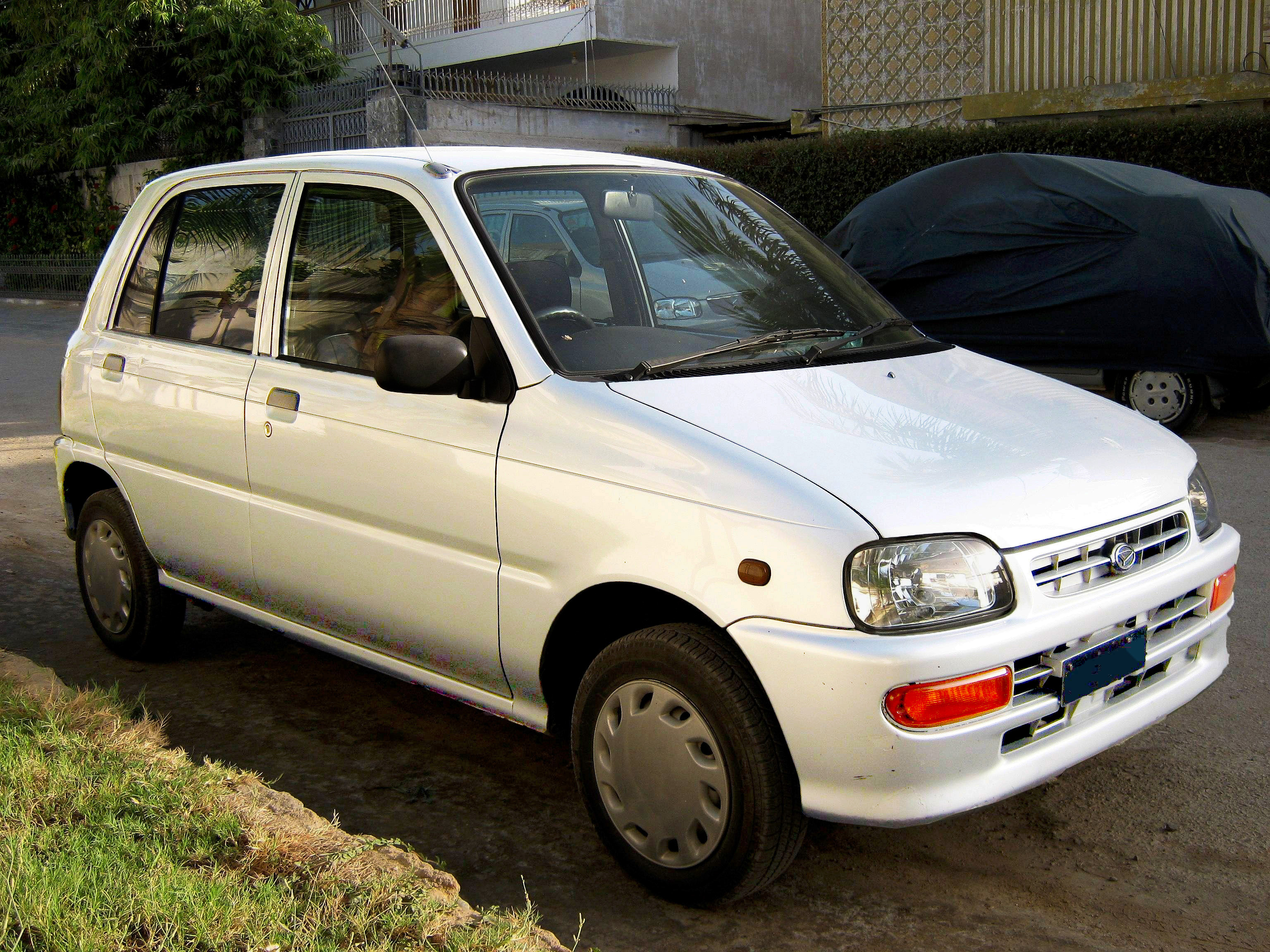 This is picture of Daihatsu Cuore L501 produced from 1994-1997 in Japan.